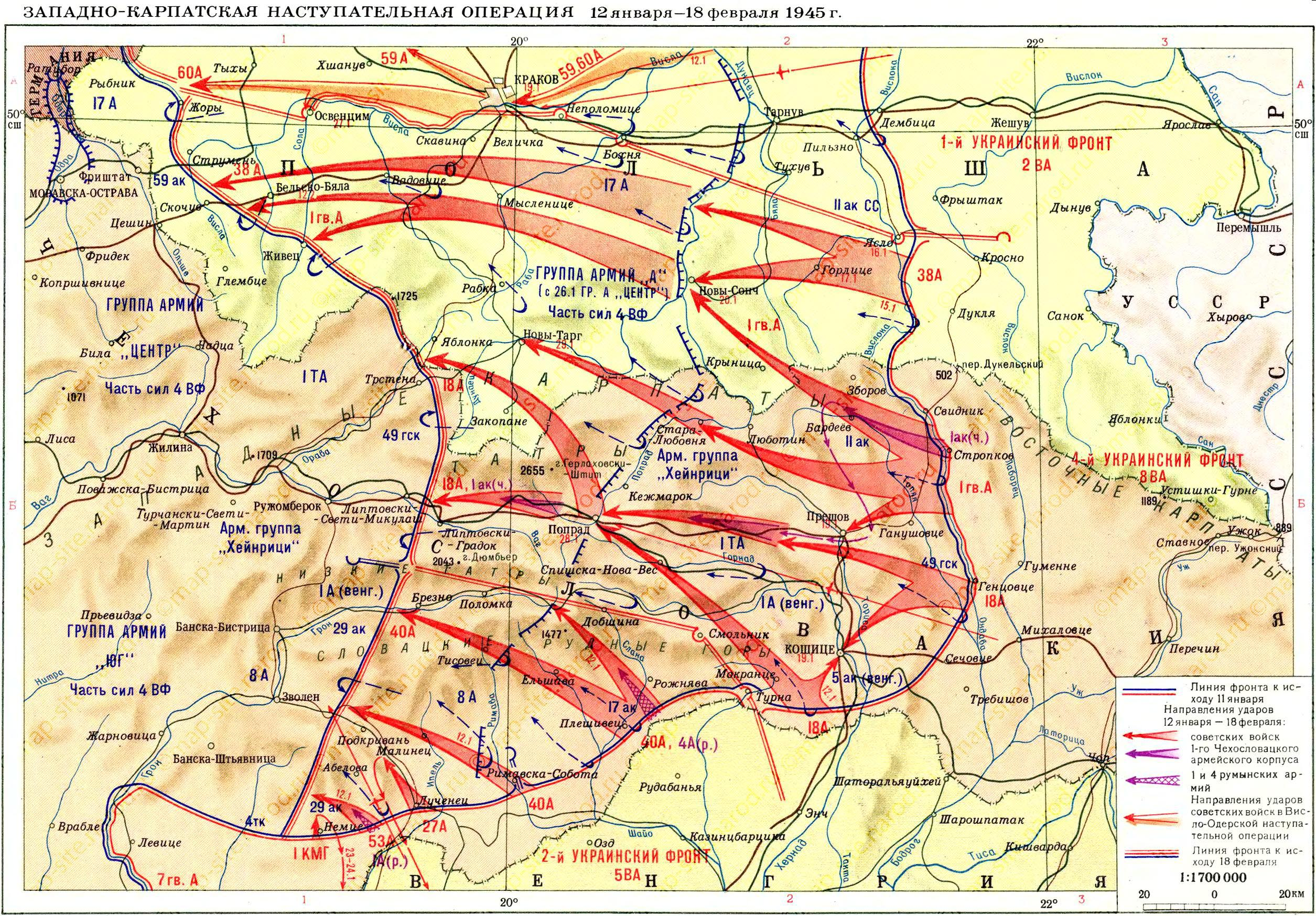 West Carpathian Operation